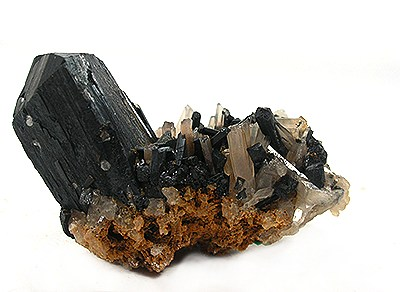 Ilvaite Locality: South Mountain District, Owyhee County, Idaho, USA (Locality at ) Size: small cabinet, 5.8 x 4.5 x 4.3 cm Ilvaite This is a fine American ilvaite on matrix of competition quality! Jutting out of a matrix of 1 cm black ilvaite crystals and 1 cm quartz crystals, is a large, equant ilvaite, rising roughly 3cm x 3cm. This crystal has a matte luster and is extremely well formed with a broad, classic termination. While the mine has produced a fair number of these specimens in the past, this is one of the best I have seen and is certainly among the best for its size, on matrix, barring only specimens from Dalnegorsk and perhaps a few from old finds in Italy. Admittedly, ilvaite is often rather unappreciated as a species but it shouldn't be - good xls are darned uncommon.. 5.8 x 4.5 x 4.3 cm